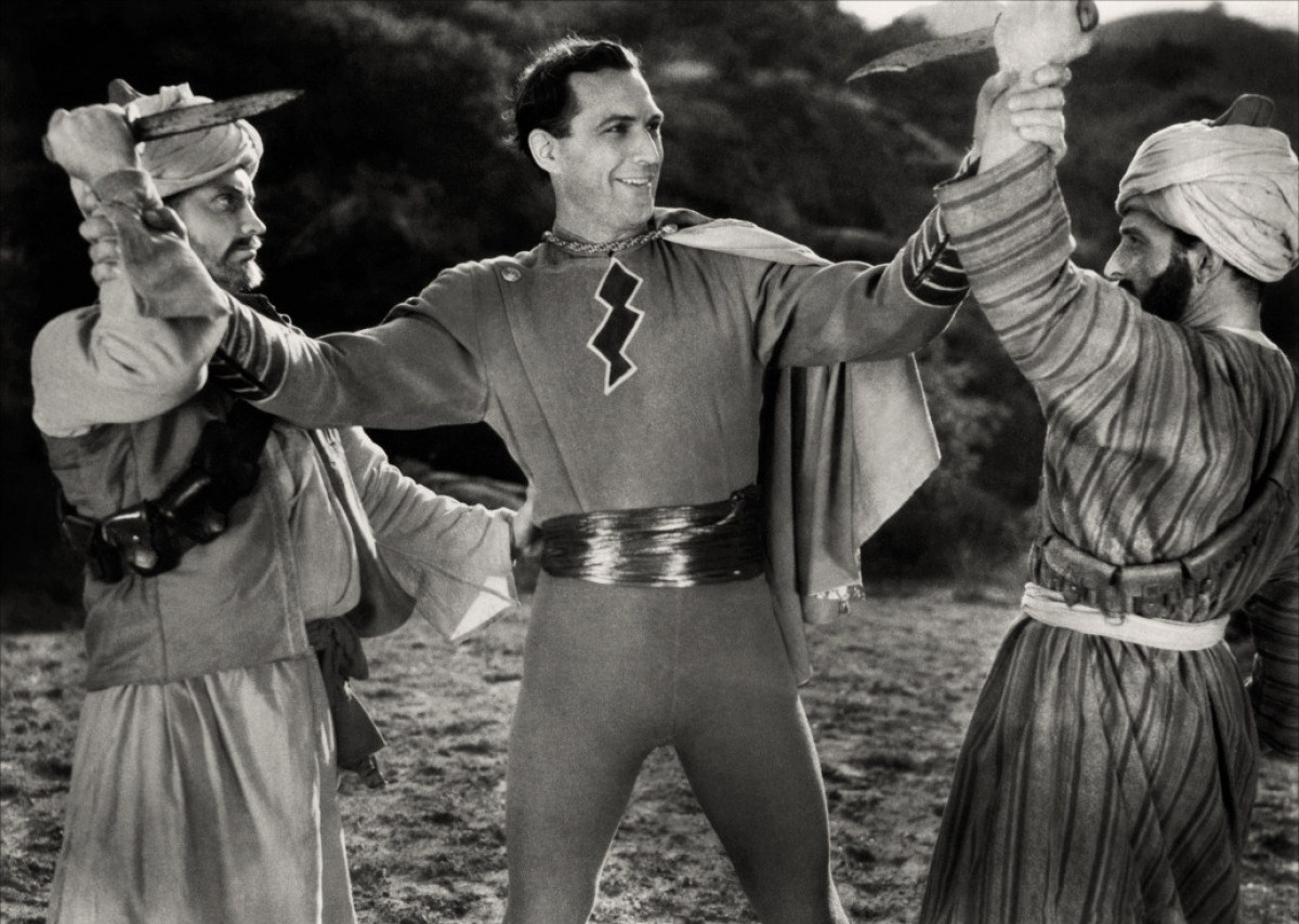 Tom Tyler (center) in Adventures of Captain Marvel - publicity still (cropped)